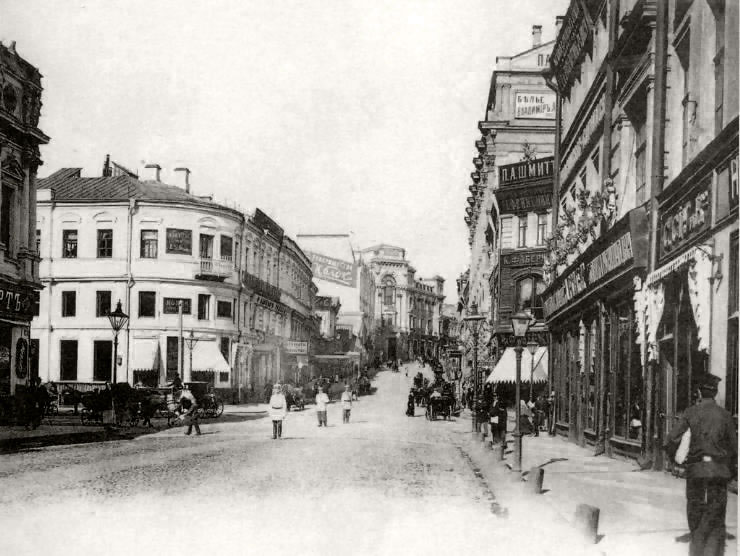 Historical images of Kuznetsky Most